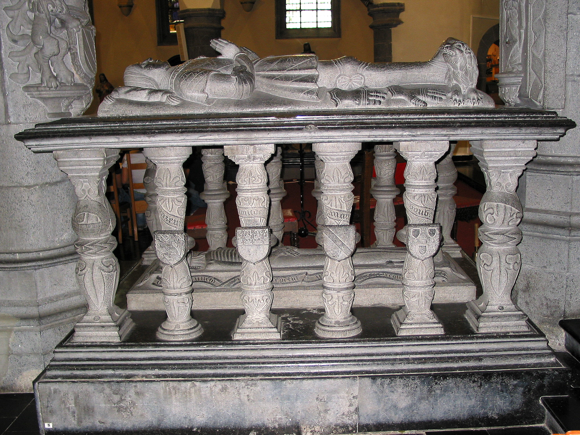 Trazegnies (Belgium), St. Martin church - Remarkable recombant figure of Jean III de Trazegnies and his spouse Isabeau de Werchin (1550).